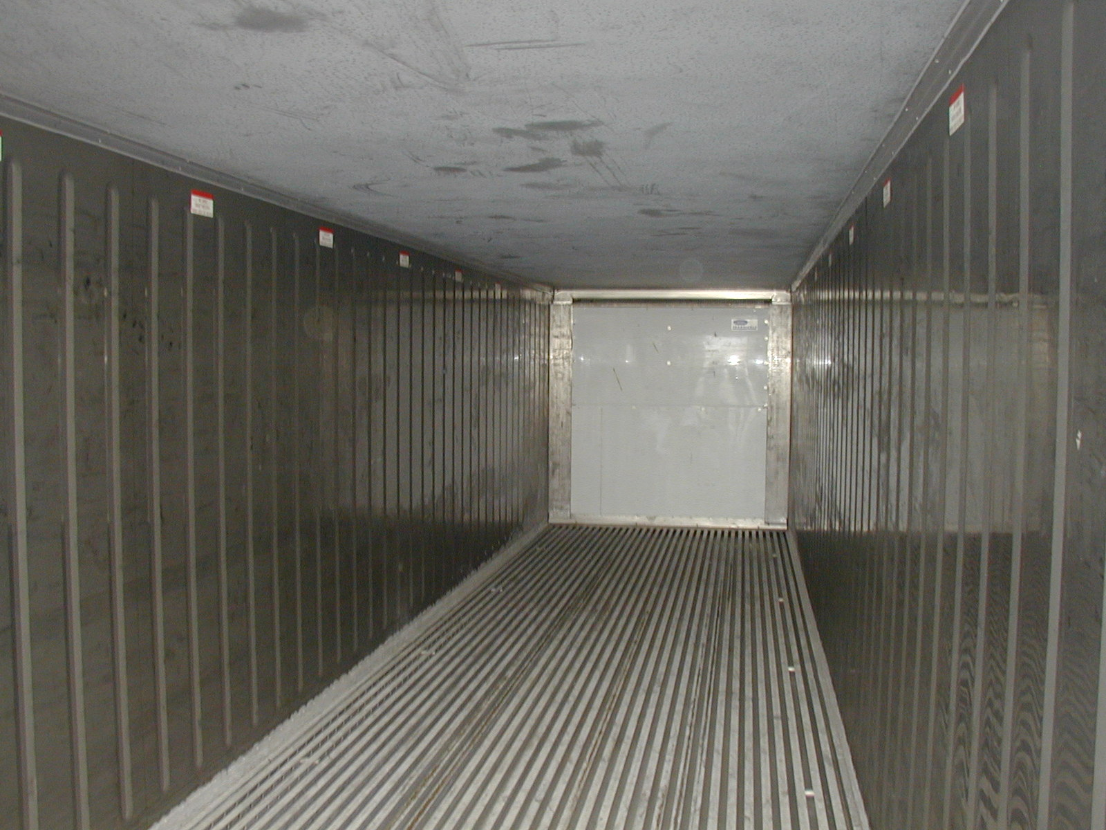 inside of 40 ft reefer container